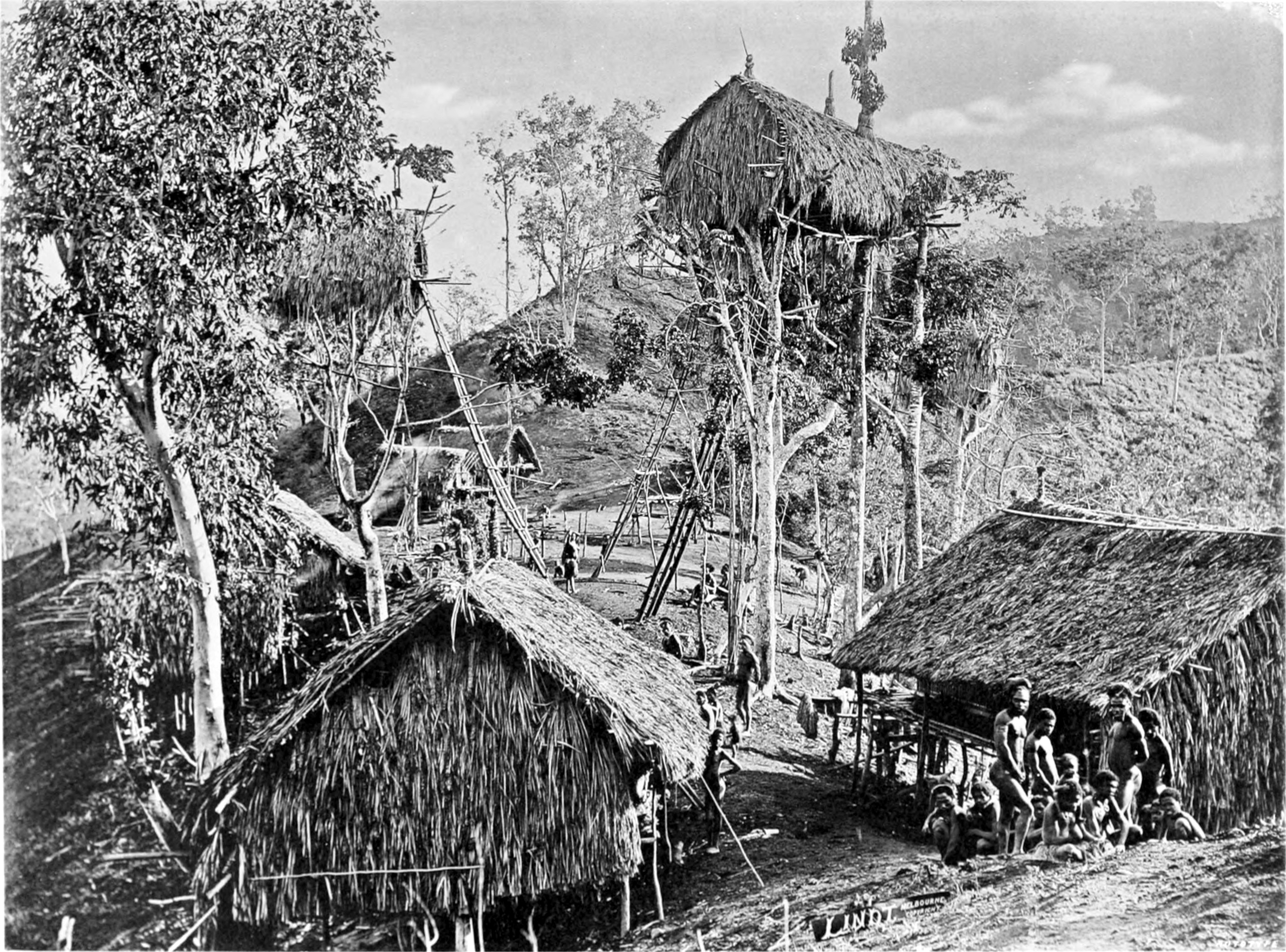 Sadara Makara, Koiari village near Bootless Inlet, British New Guinea.